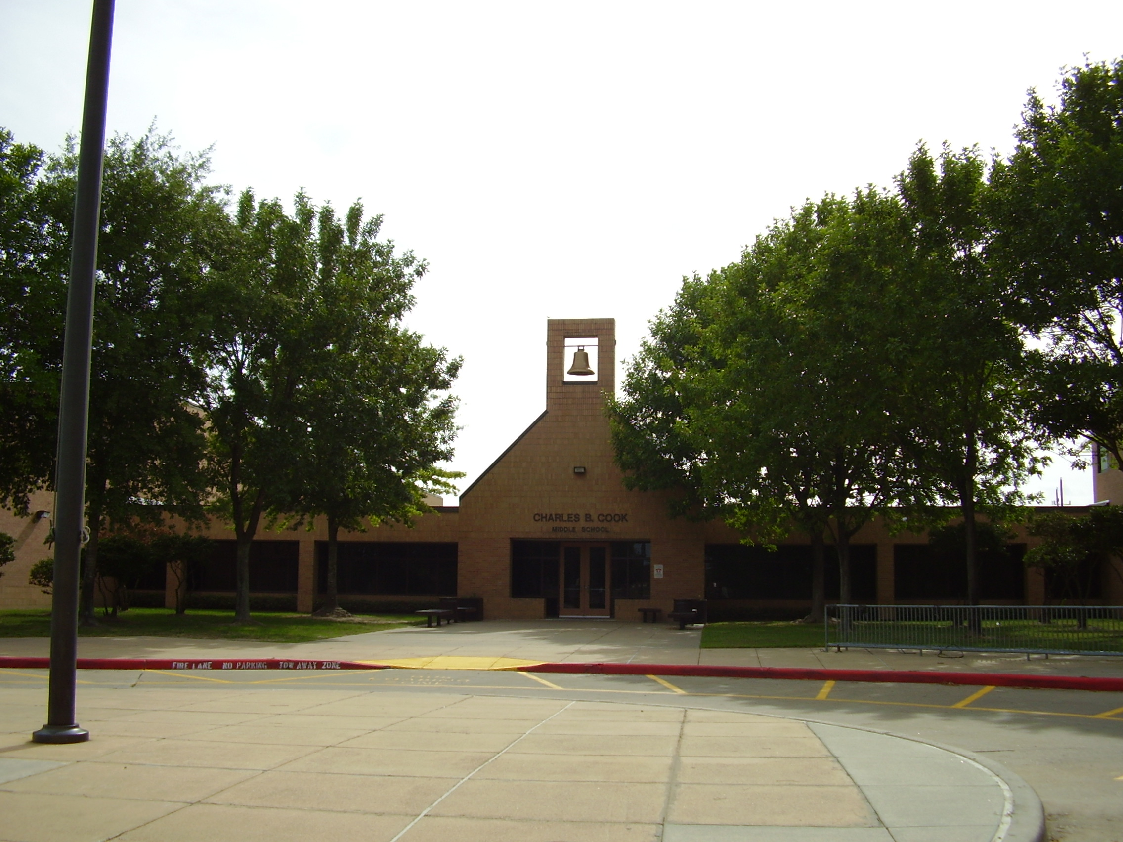 Charles B. Cook Middle School